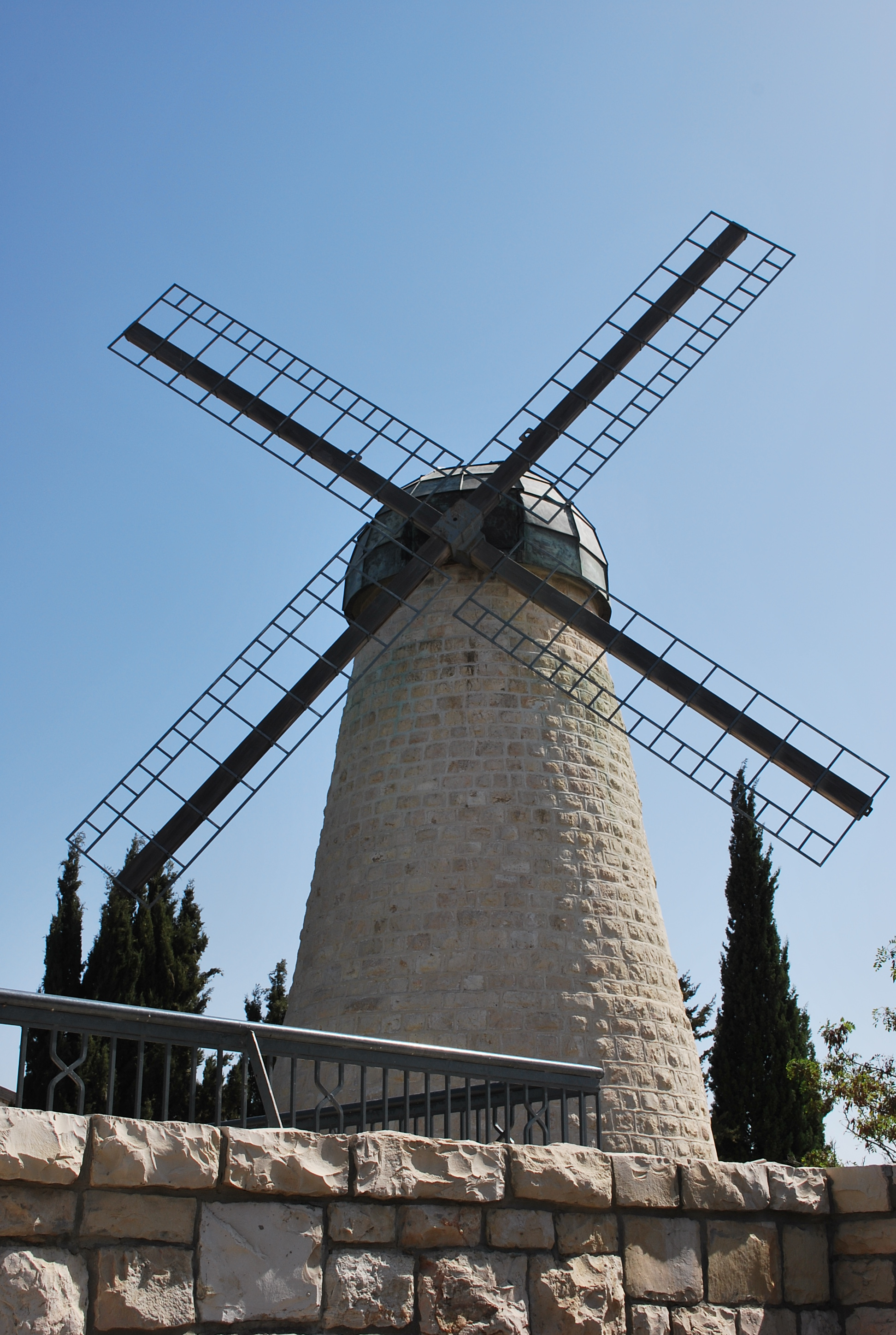 This windmill is just done the street. Someday, I may learn why there is a windmill in the park. Alas, today was not that day. Jerusalem